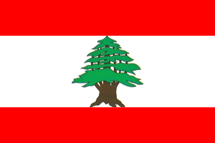 Civil Ensign of the Lebanese Republic (2:3 ratio)